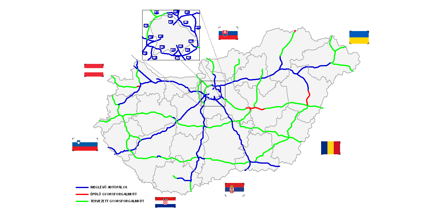 Motorways in Hungary 25. 10. 2016